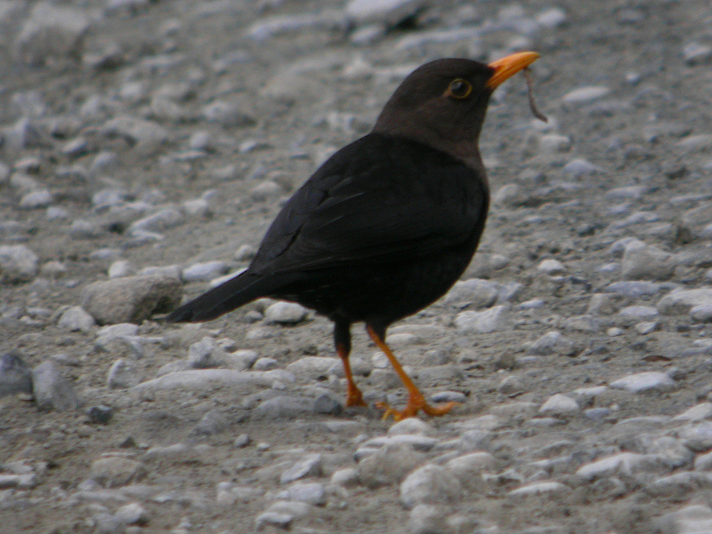 Island thrush Turdus poliocephalus thomassoni, adult male, Mount Polis, Luzon